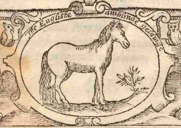 Illustration of an "English ambling gelding", from the title page of Gervase Markham's Cavalarice, or the English Horseman, 1617